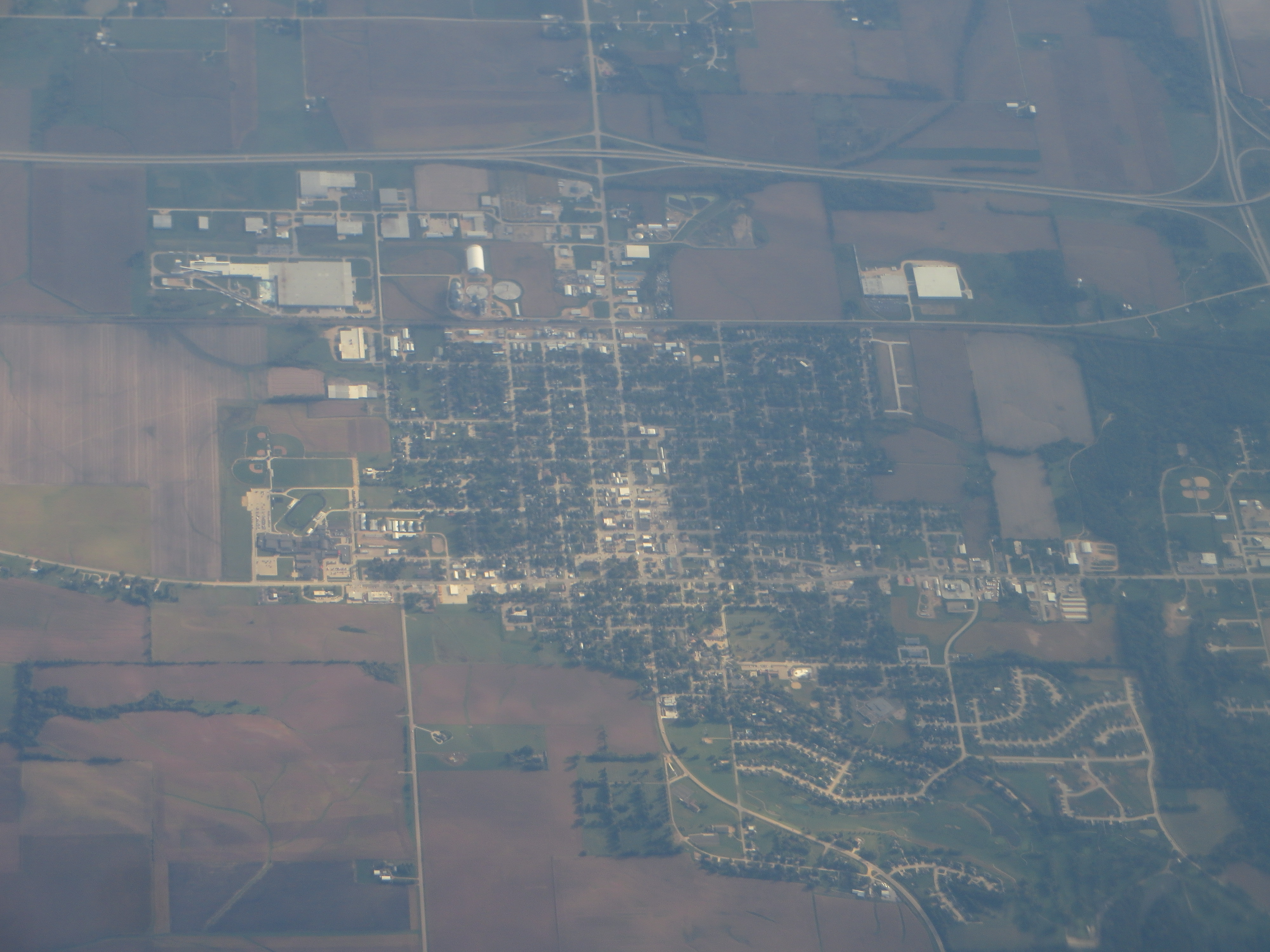 DeWitt is a city in Clinton County, Iowa, United States. The population was 5,322 at the 2010 census, which is a 5.2% increase from the 2000 census, making it the fastest growing city in Clinton County.